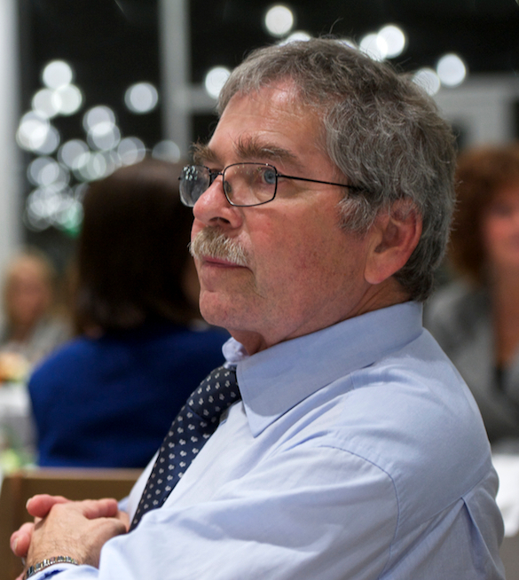 Georg Bednorz at the Memorial Symposium for Heinrich Rohrer at ETH Zurich on 31 October 2013 © D-PHYS/Heidi Hostettler